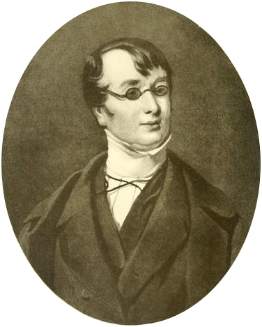 Thomas Turner (13 August 1793– 17 December 1873) was an English surgeon and Fellow of the Royal College of Surgeons. He founded of a medical school in Manchester.